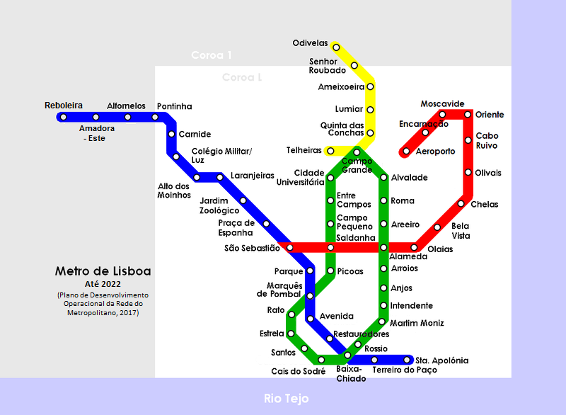 Mapa do Metropolitano de Lisboa projectado para 2022 (Plano de Desenvolvimento Operacional da Rede do Metropolitano de Lisboa, 2017).